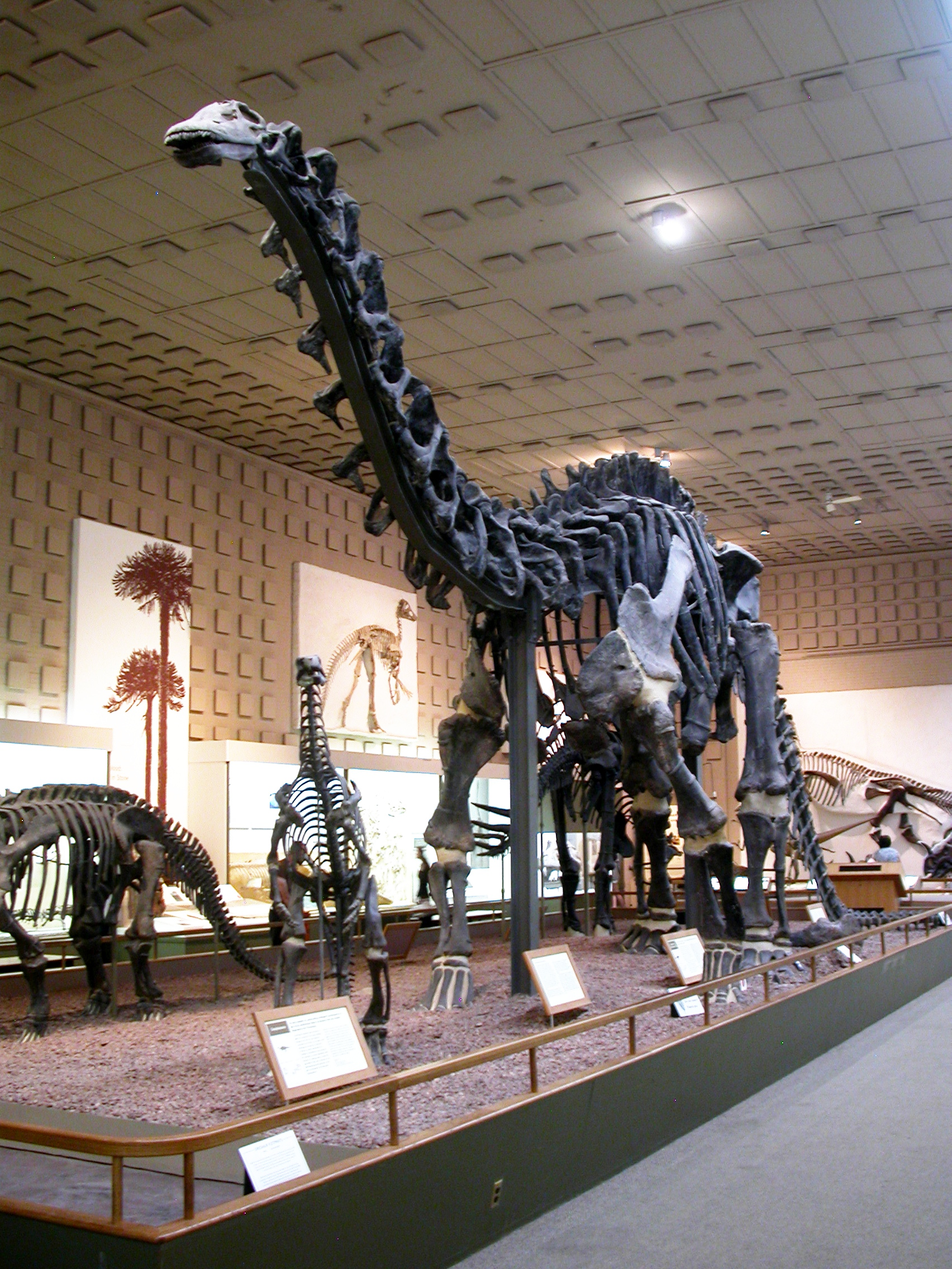 YPM 1980: Brontosaurus excelsus, the animal formerly known as Apatosaurus excelsus, the animal formerly known as Brontosaurus excelsus. Peabody Museum of Natural History in Yale.